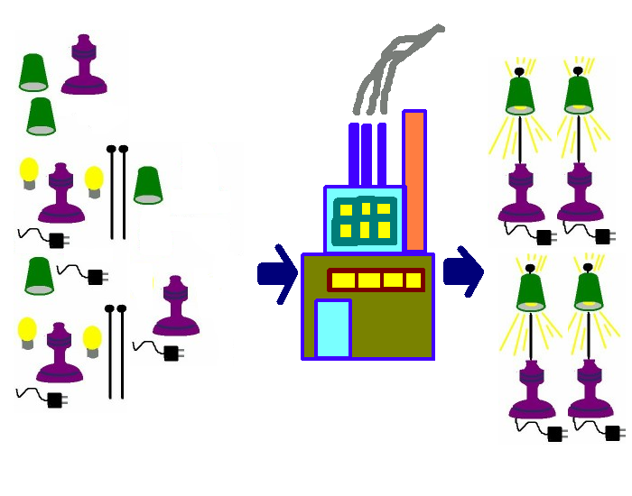 An illustration of factory processing: in this case, a factory to assemble lamps. Inputs (left) are assembled into finished lamps (right).